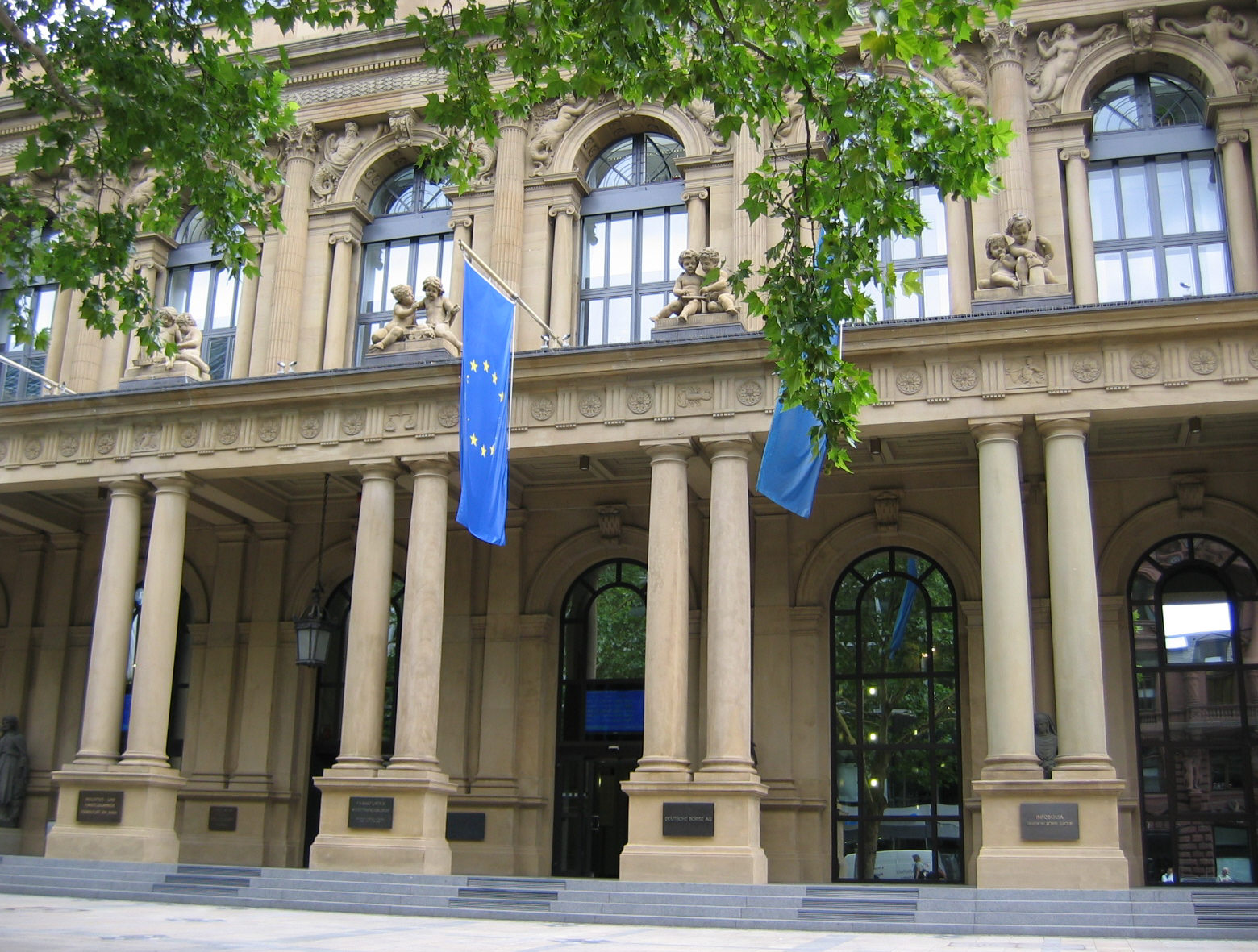 Alte Börse Frankfurt (Außenfassade) (from the original description at the German Wikipedia)